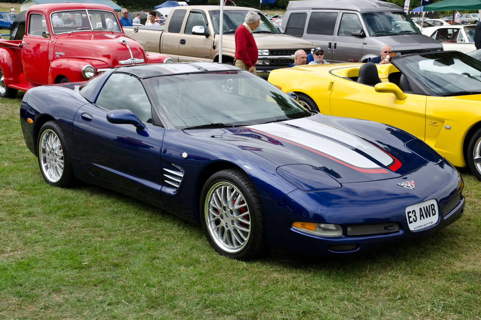 Bodelwyddan Classic Car Show 21/07/2013